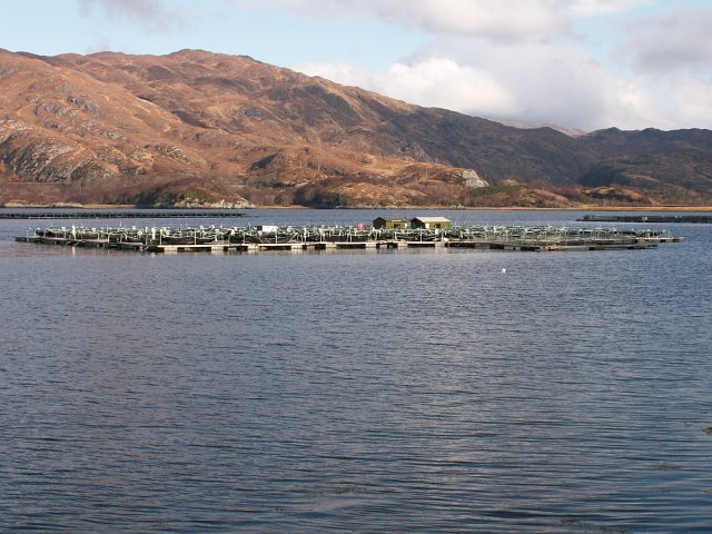 Fish cages at Kinlochailort